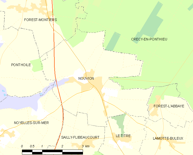 Map of French municipality Nouvion